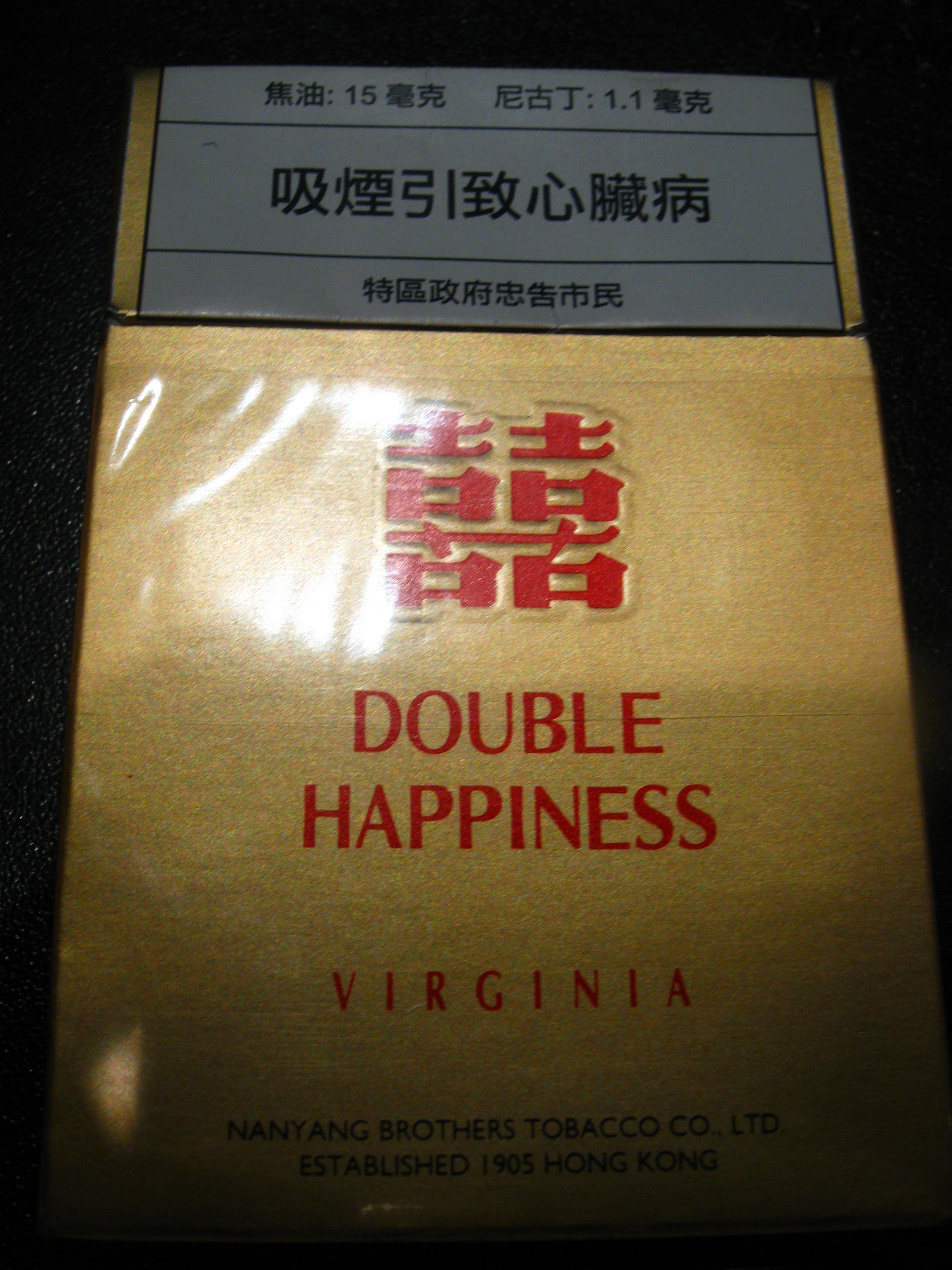 My friend bought these and couldn't understand why I found them so fantastic. It's especially because the name in Chinese is ??. The character ? pretty much means "to be fond of" or "to enjoy." But there are two of them! And that means it's extra special. Or double.